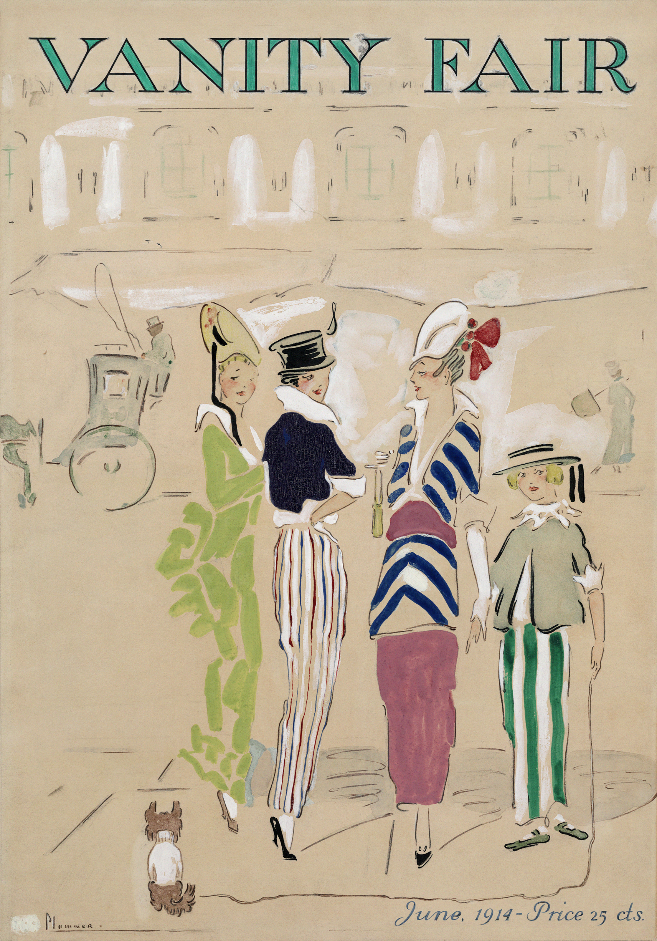 Cover art for Vanity Fair magazine. "Three fashionable women and a young girl holding a dog on a leash gather on a street, conversing. Behind them people walk and a coachman drives a carriage." India ink, gouache, and watercolor over pencil.